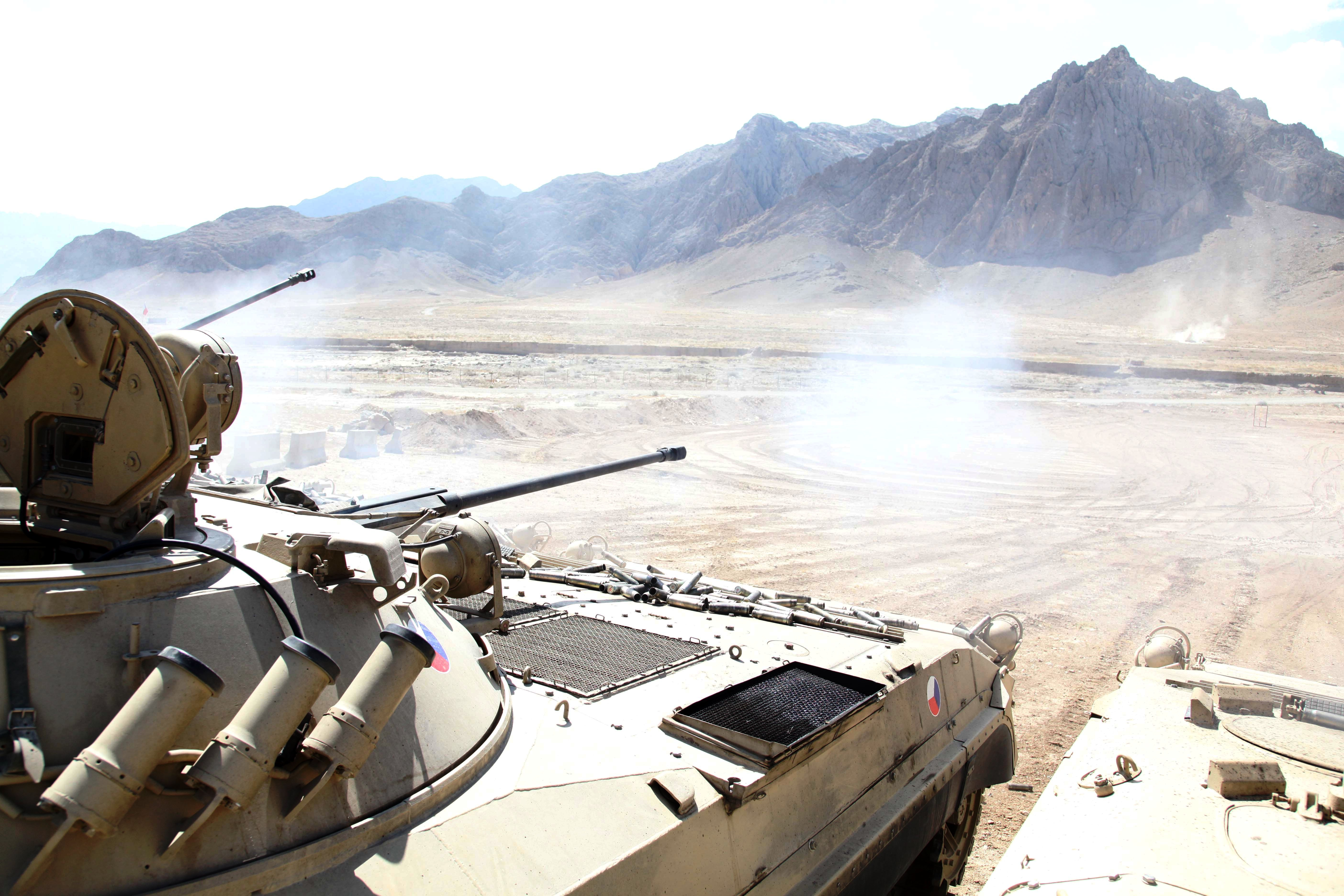 A Czech BVP2 Infantry Combat Vehicle fires a 30mm cannon during a live-fire exercise Sept. 30, 2010, at the heavy weapons range on Forward Operating Base Altimur, Logar province, Afghanistan.